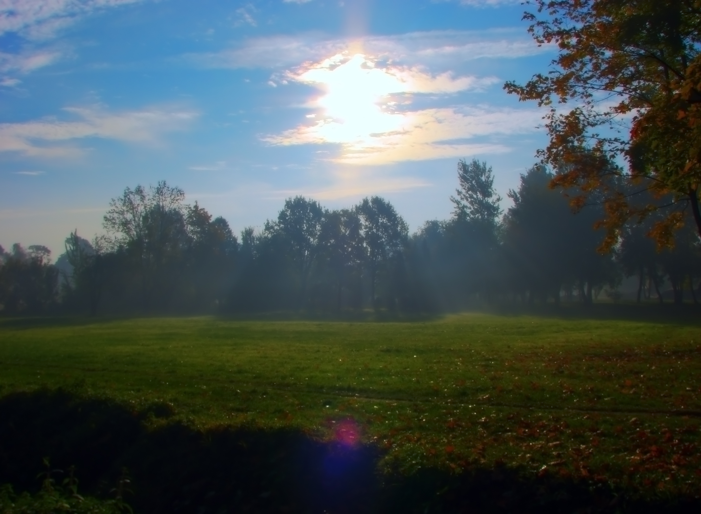 morning in Nordeka park